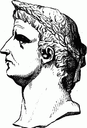 Claudius